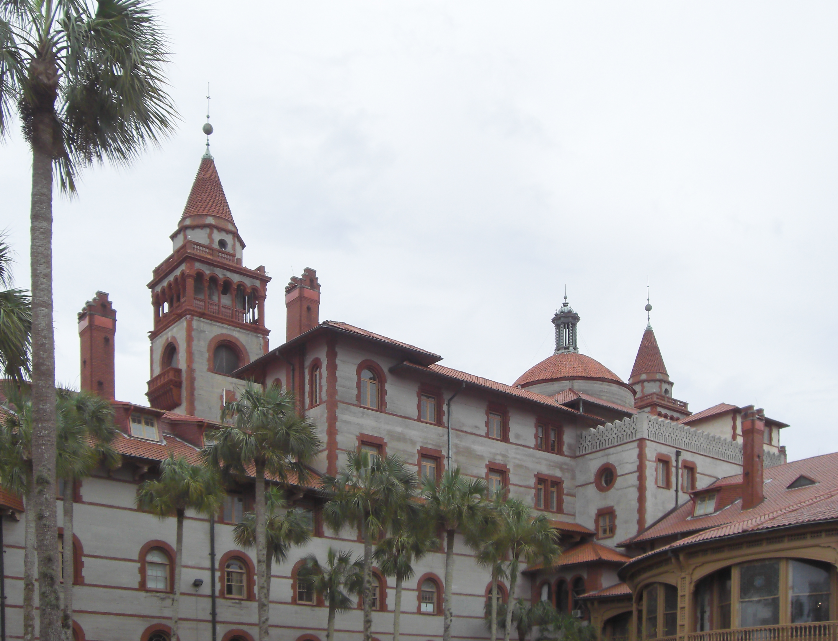 Flagler College, St. Augustine, Florida, USA